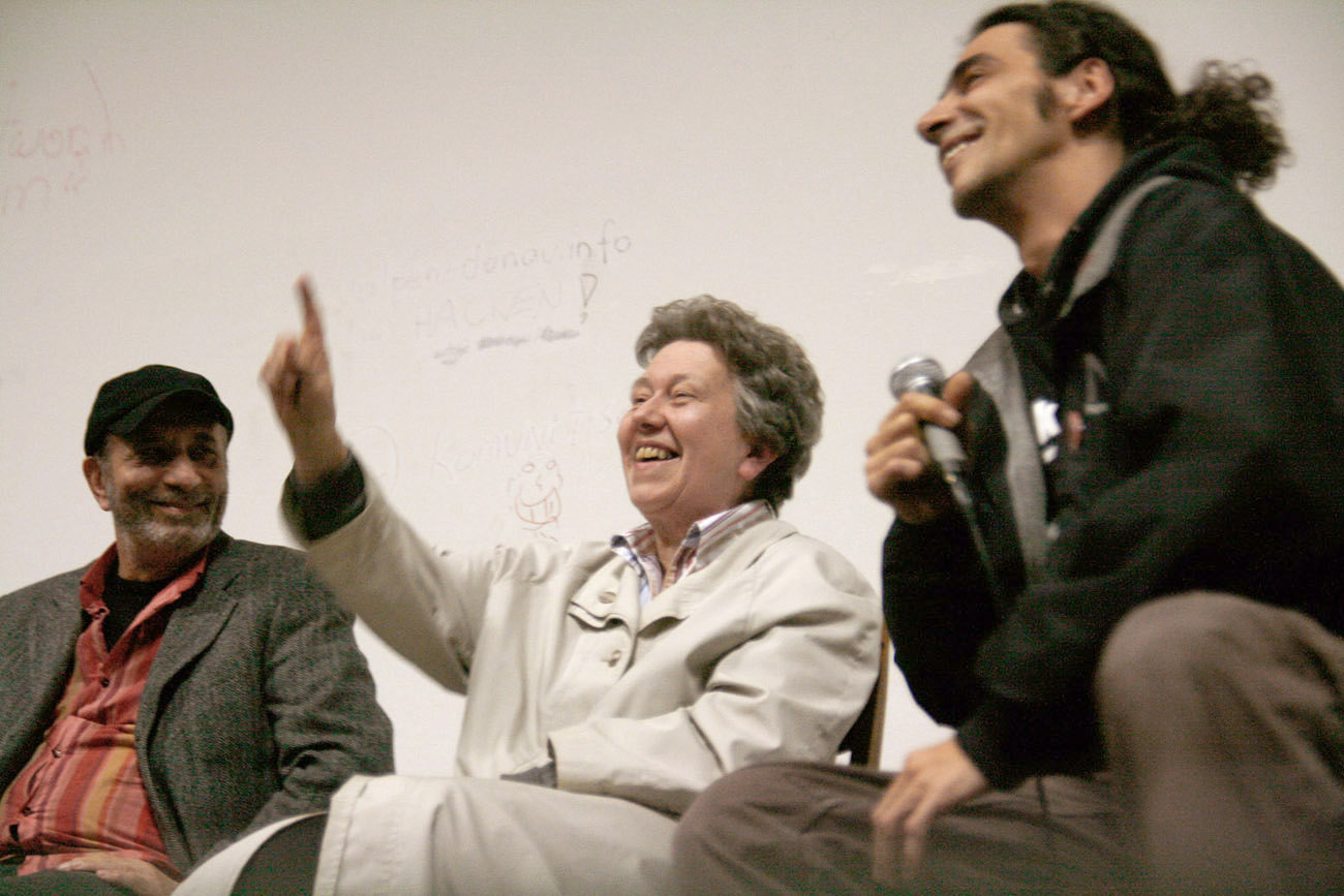 Ute Bock with film directors Tom-Dariush and Houchang Allahyari at the advance screening of Bock for President at the Auditorium Maximum of the University of Vienna, that was occupied by protesting students in autumn 2009.